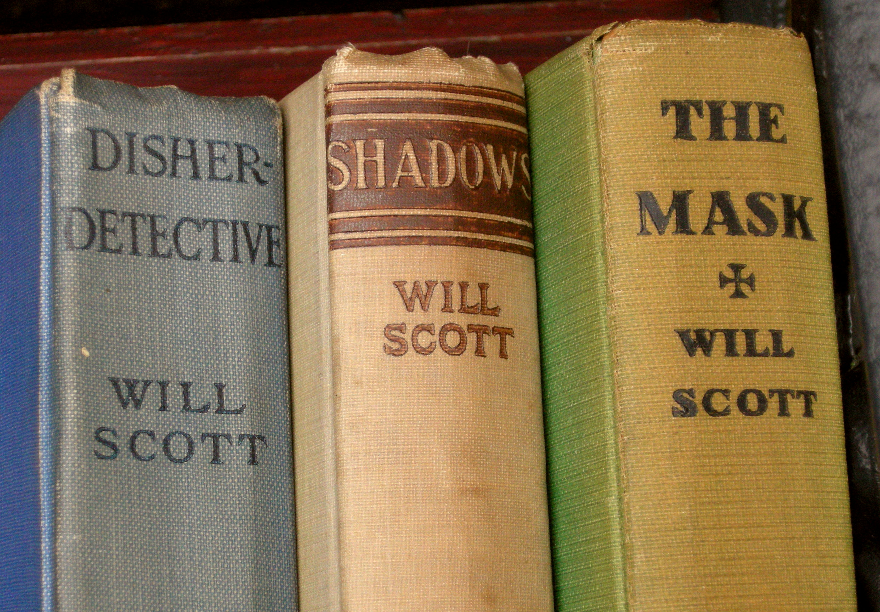 Disher, Detective (1925), Shadows (1928) and Mask (1929) by Will Scott. All photographed as hardbacks without dustjackets.